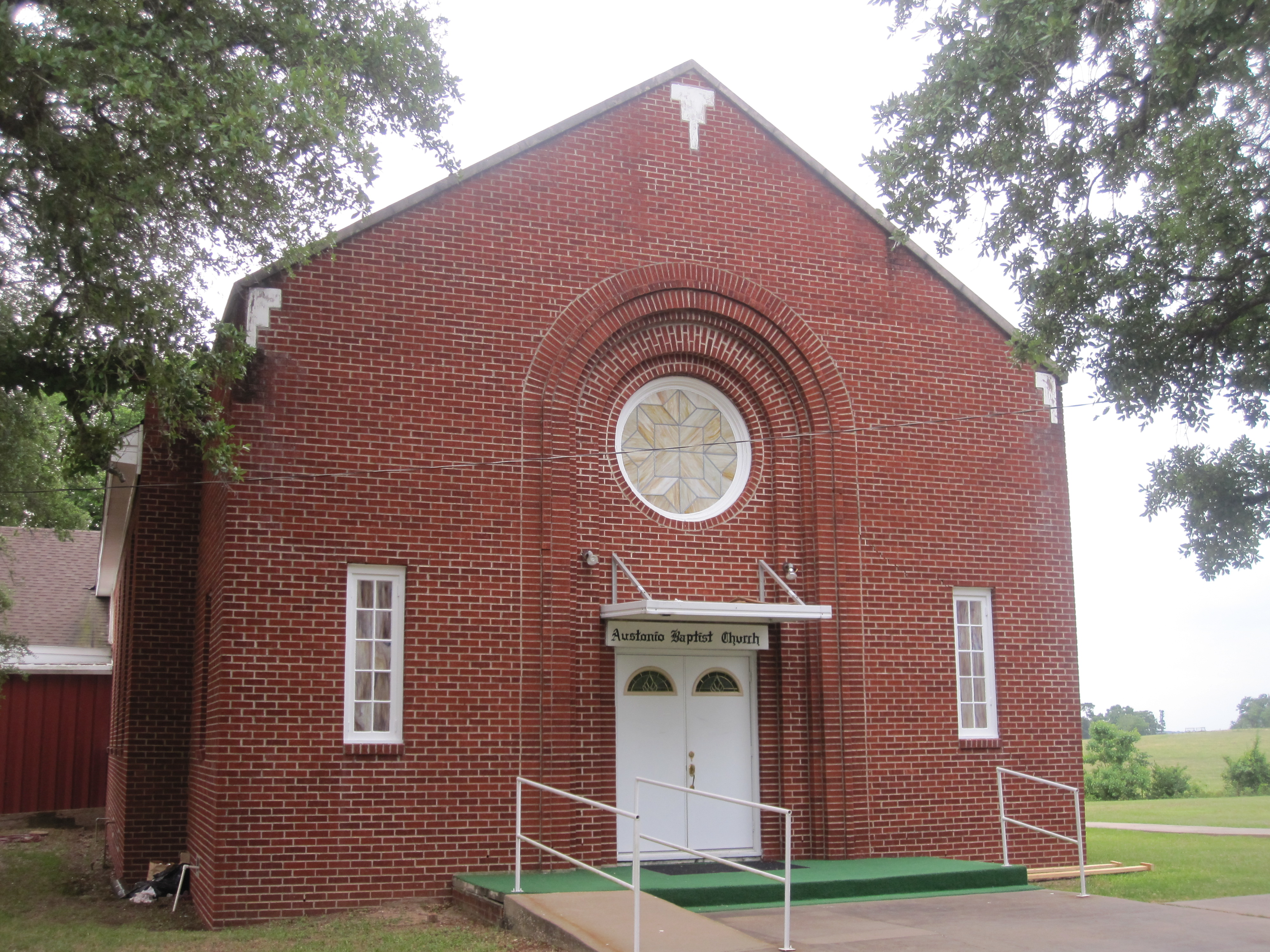 I took photo with Canon camera.